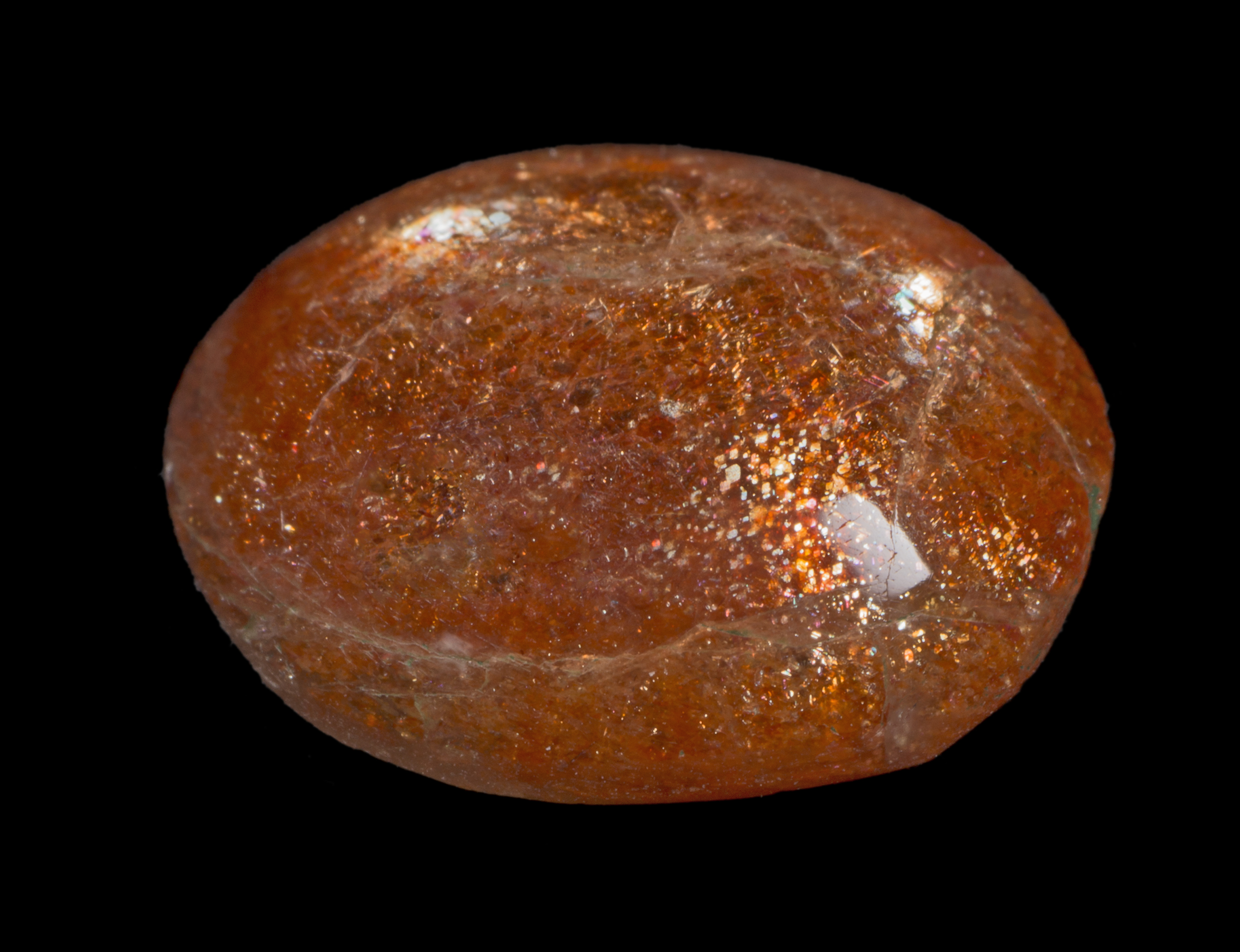 Oligoclase - (Var.Sunstone) India (1.5x1cm)